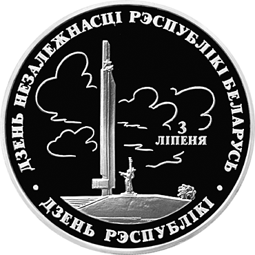 Belarus and the global community. Commemorative coin to mark the Day of Independence of the Republic of Belarus (Republic Day)